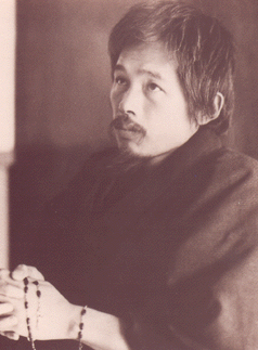 taken in 1946, during mourning of his wife